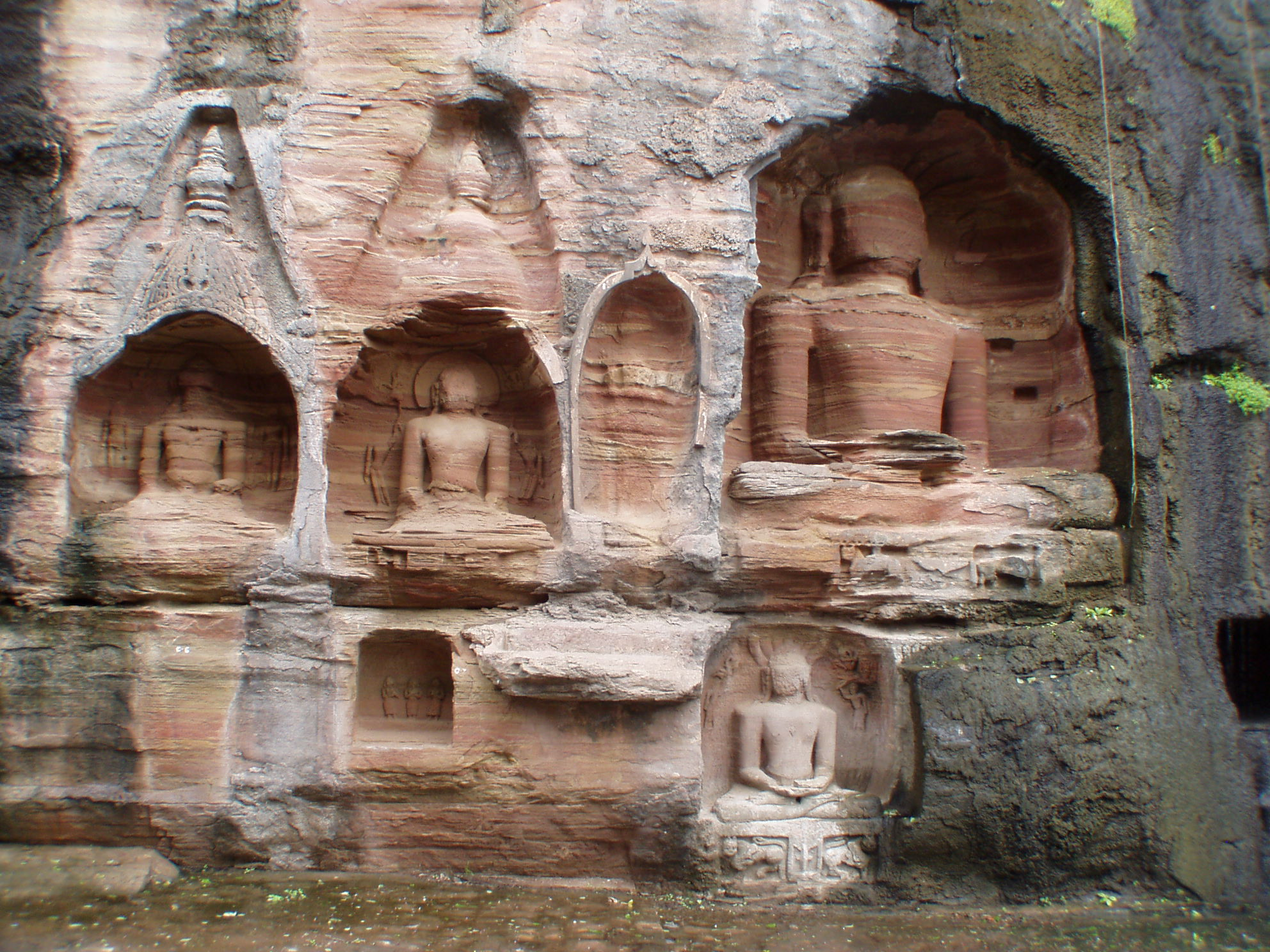 gopachal parvat parbat gwalior fort hill clif rock carvings reliefs madhya pradesh thirthankaras jain sculptures thirtankar thirtankaras tirthankar tirthankaras Detail of Ek Patthar ki Baori (aka Gopachal Parwat) where artisans painstakingly carved twenty six giant statues and many other smaller images of Jain Tirthankars (holy men of Jainism) in the slopes of the rocky promontory where Gwalior Fort stands.